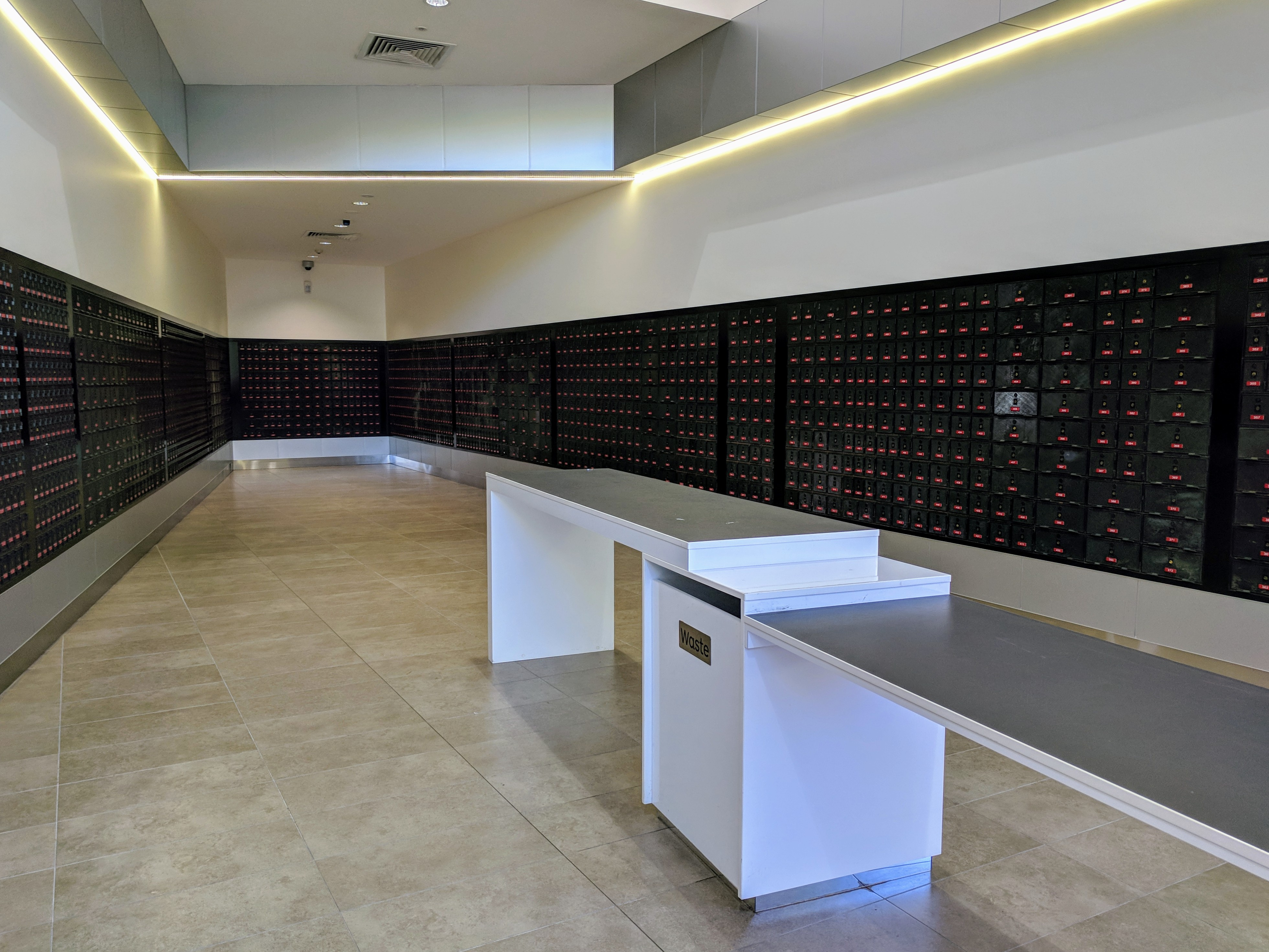 Post boxes at the Canberra general post office